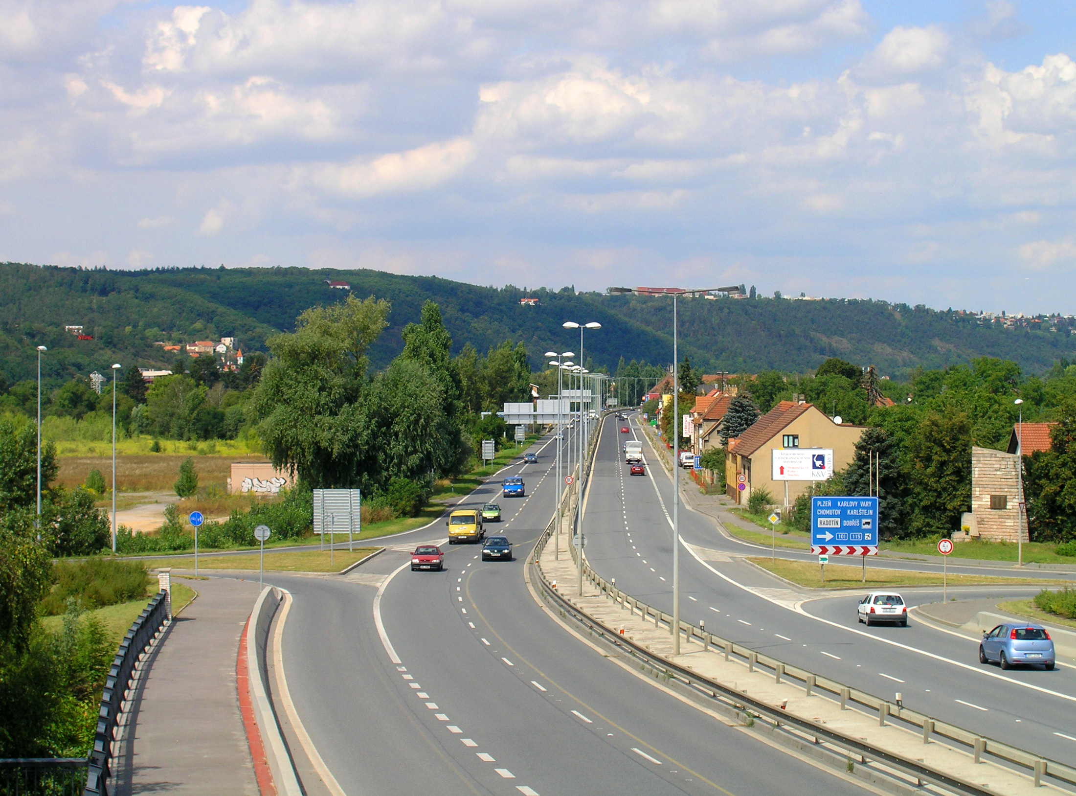 Strakonická street in Lahovice, Prague